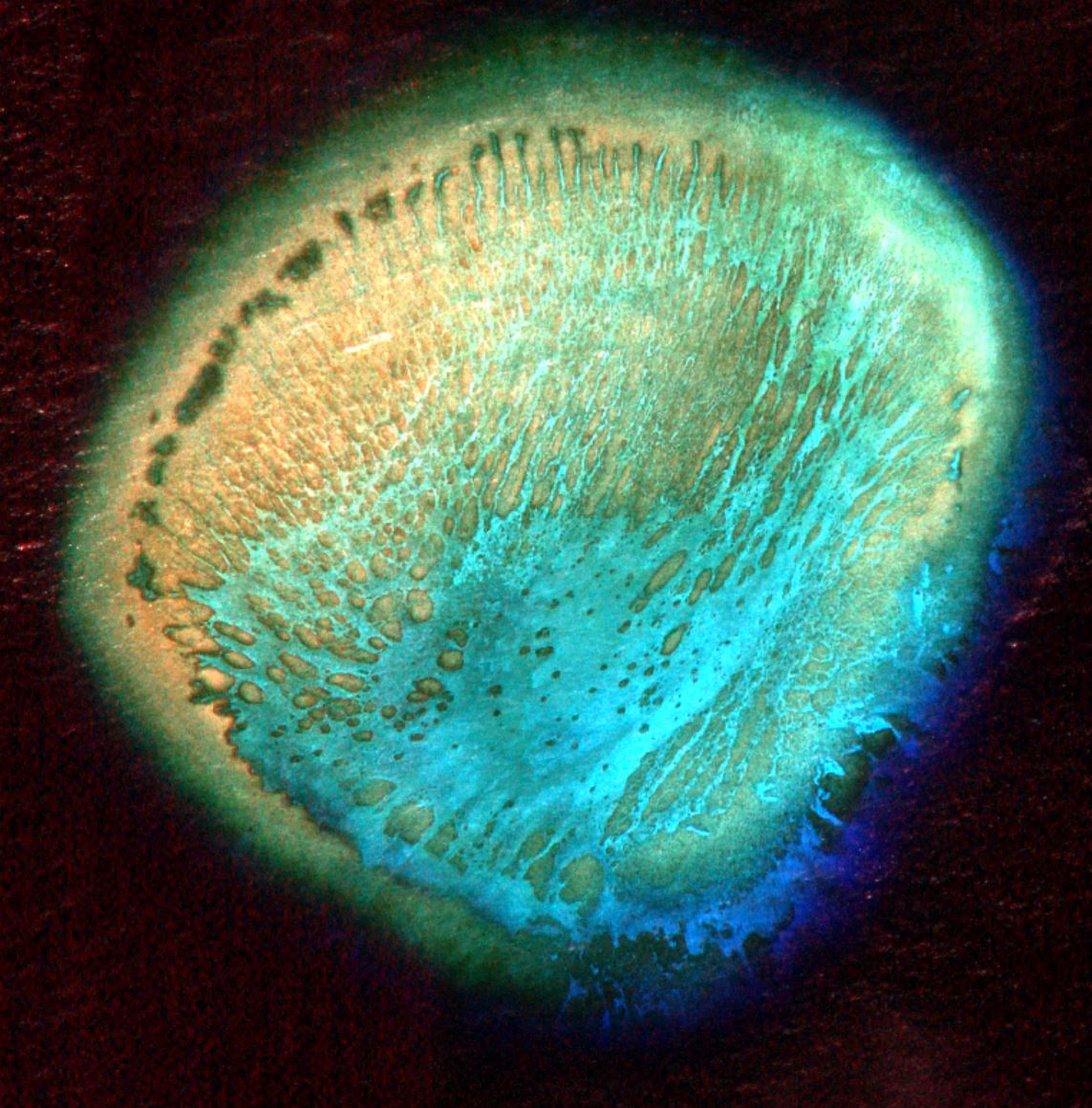 Discovery Small Reef